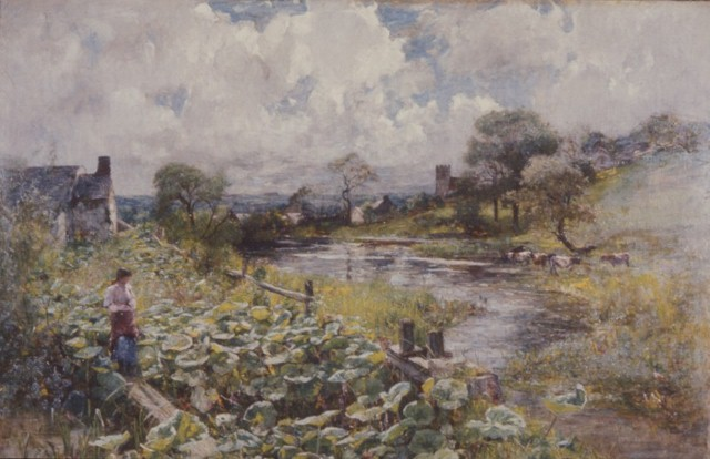 A river scene in Spring